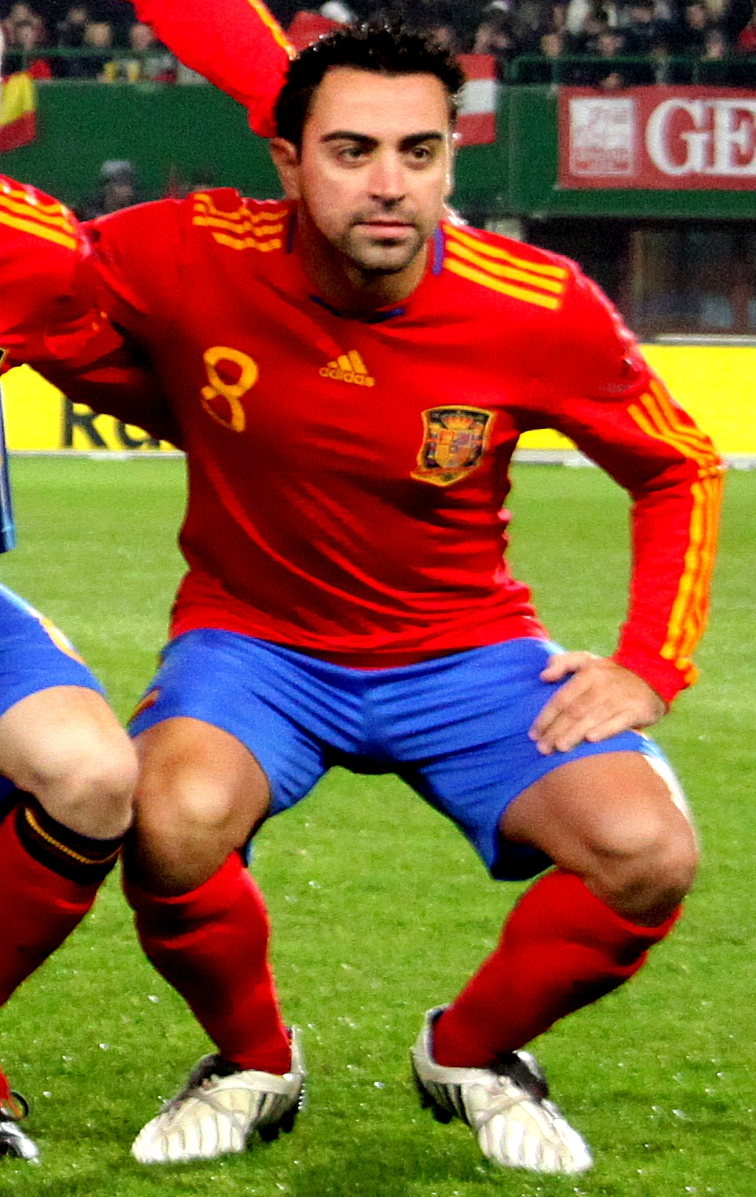 Spain national football team at 2009-11-18 in Vienna (Ernst-Happel-Stadion) vs. Austria national football team (5:1) → For the names of the players move the mouse over the photo.